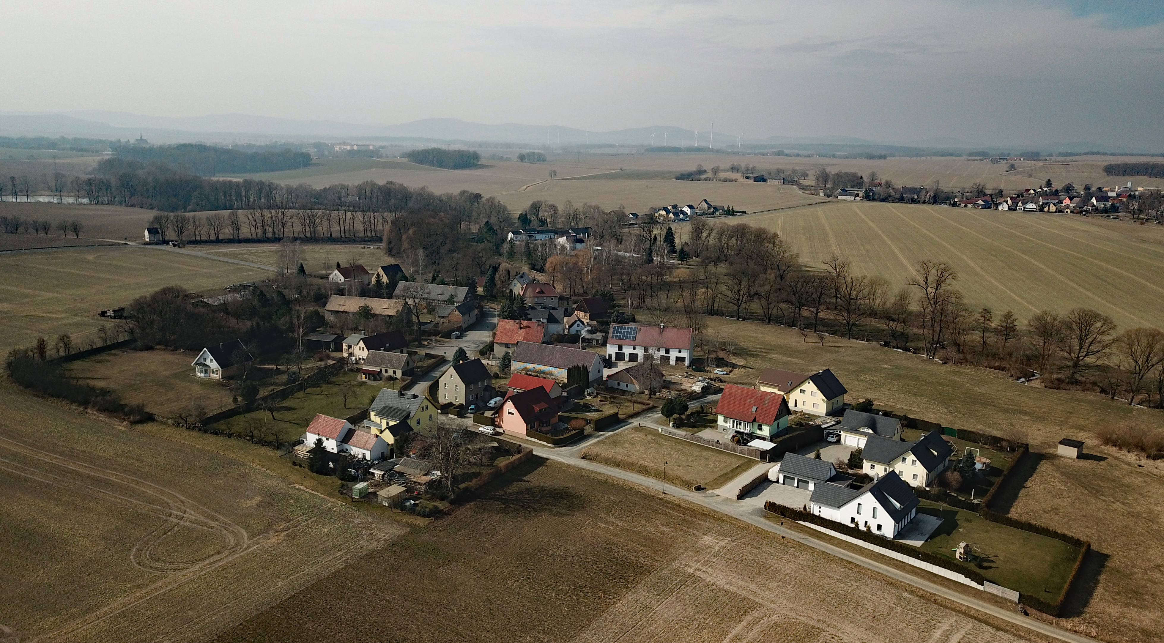 Caseritz (Crostwitz, Saxony, Germany) Hornjoserbsce: Powětrowy wobraz Kozarc